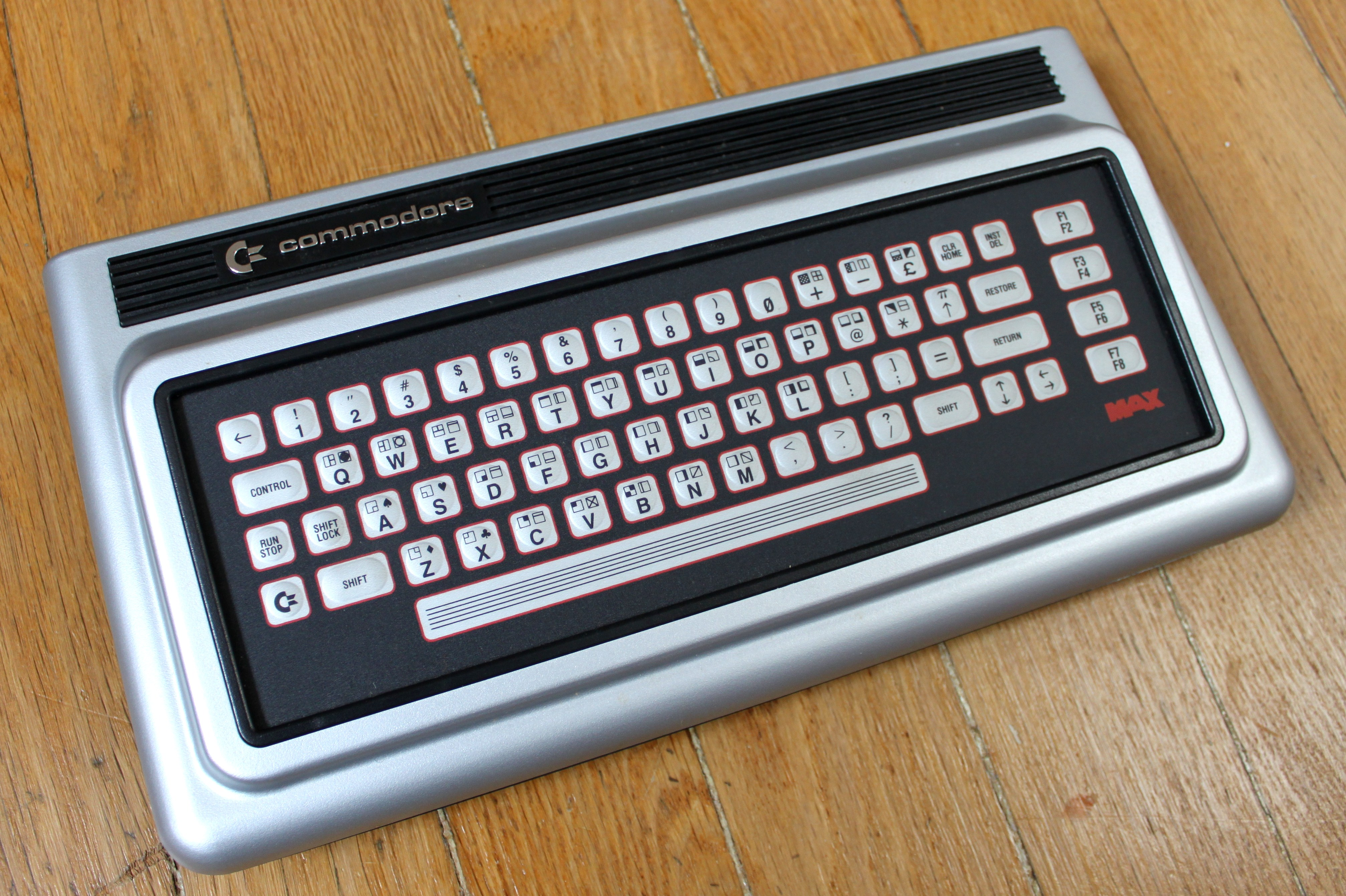 The Commodore MAX Machine, an early version of the Commodore 64, only launched in Japan